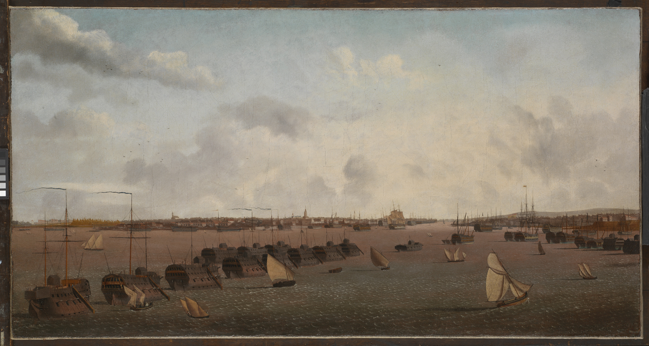 Portsmouth Harbour with Prison Hulks (oil on canvas; 50.4 x 98.6 cm)